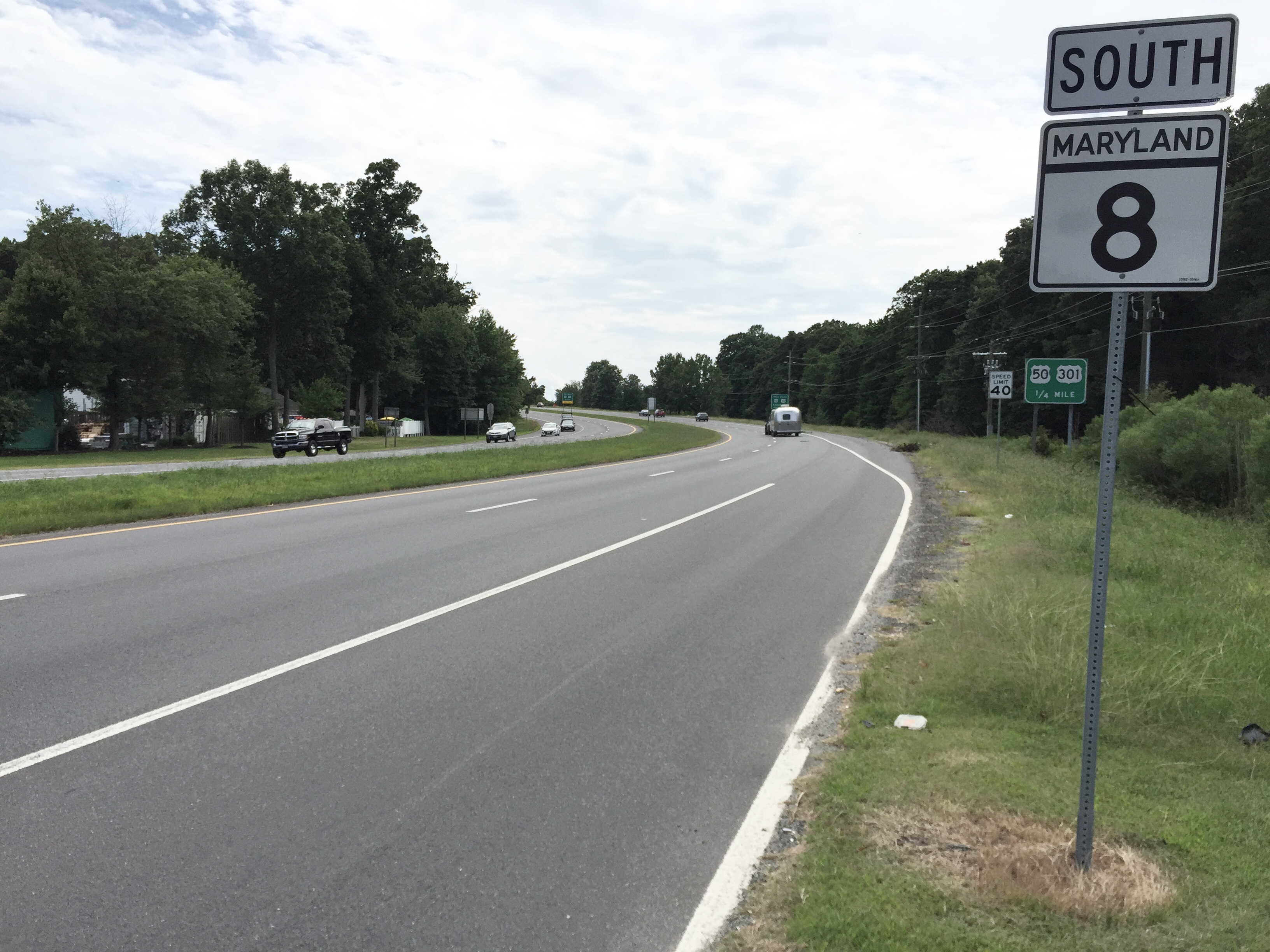 View south along Maryland State Route 8 (Romancoke Road) at Maryland State Route 18 (Main Street) in Stevensville, Queen Anne's County, Maryland